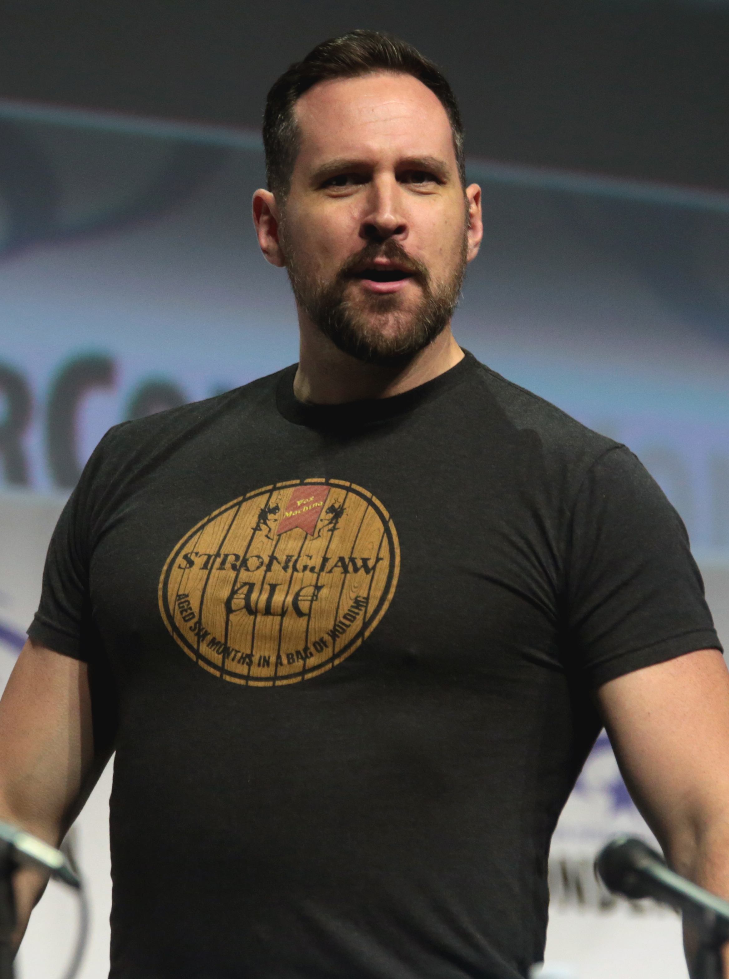 Travis Willingham speaking at the 2017 WonderCon in Anaheim, California.